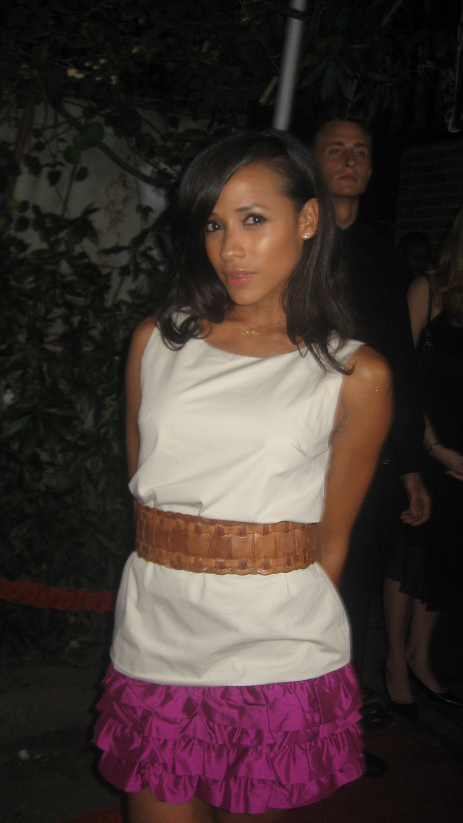 Dania Ramirez at L.A. Confidential/Belvedere/Water Club/Sapporo Emmy Party